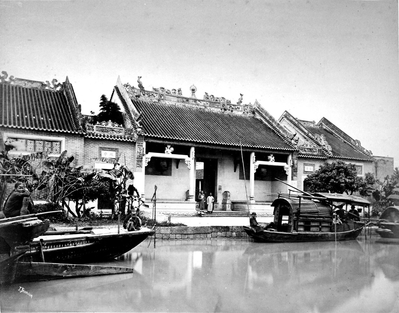 photo from Photographic Views of Canton